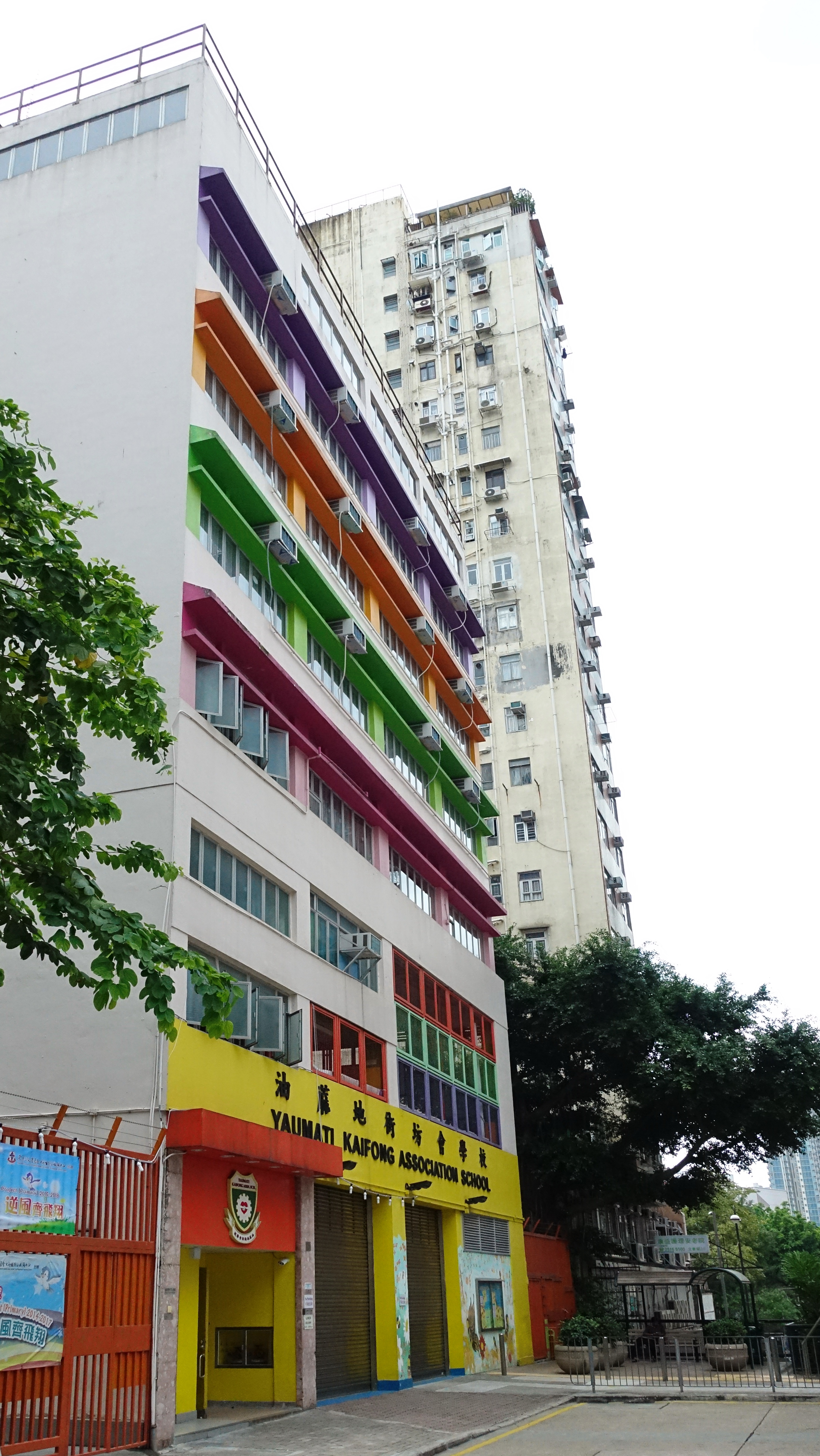 Yaumati Kaifong Association School, Kowloon, Hong Kong.